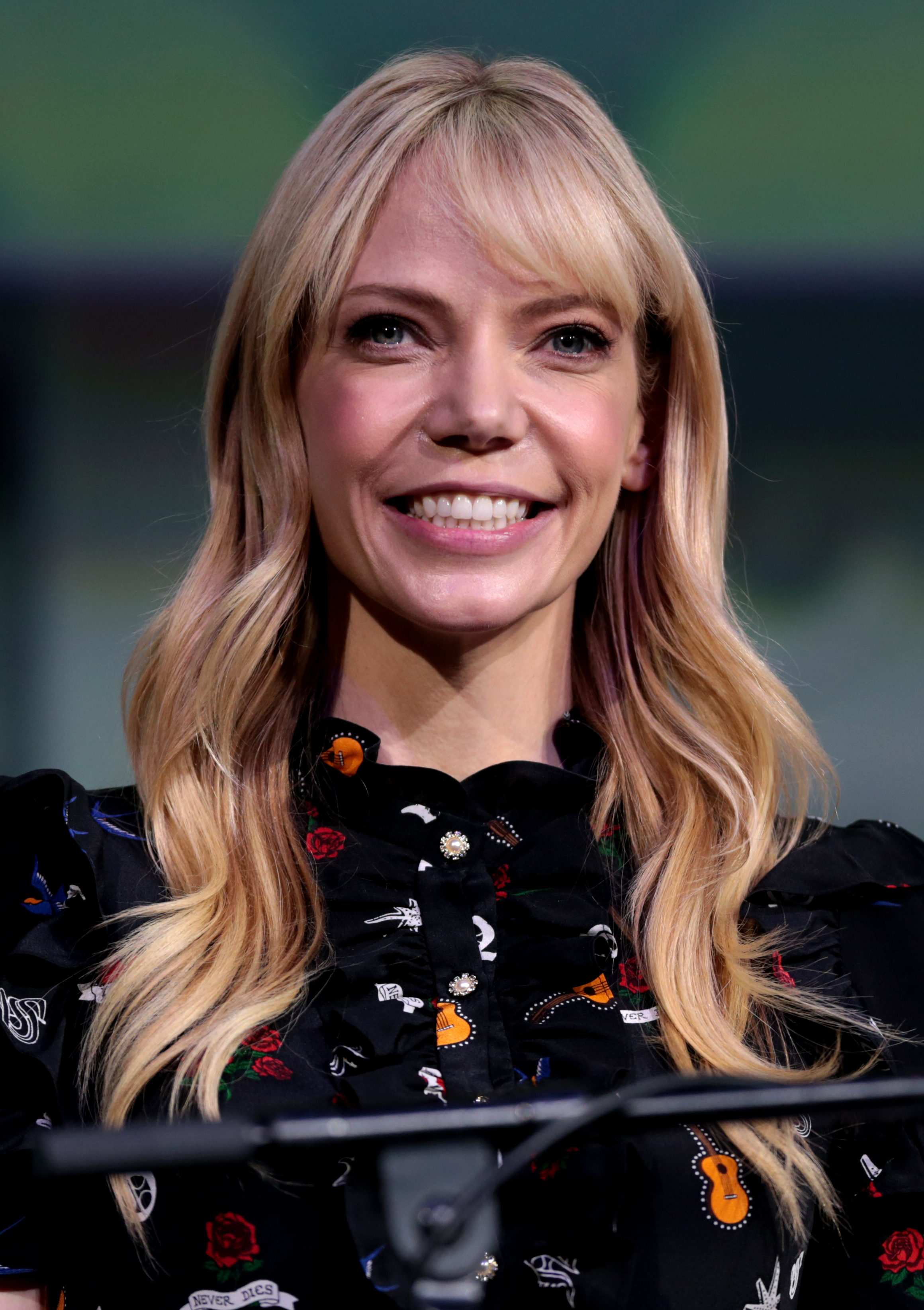 Riki Lindhome speaking at the 2017 San Diego Comic-Con International in San Diego, California.